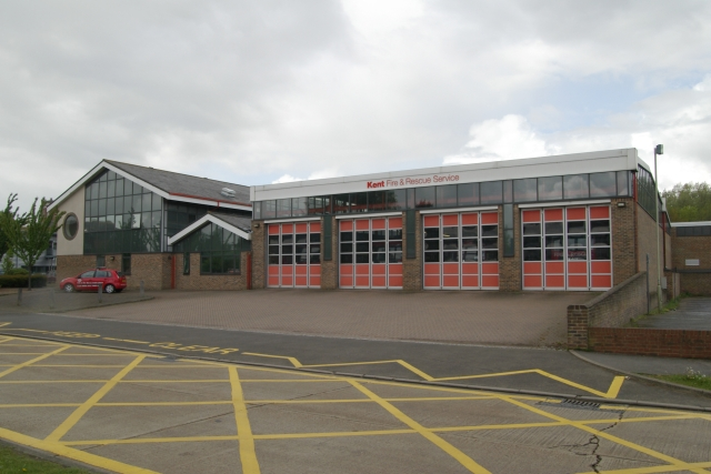 Ashford fire station Ashford fire station, Henwood Business Centre, Henwood, Ashford, Kent